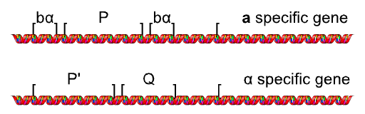 Promoter structure of genes specific to a particular mating type.